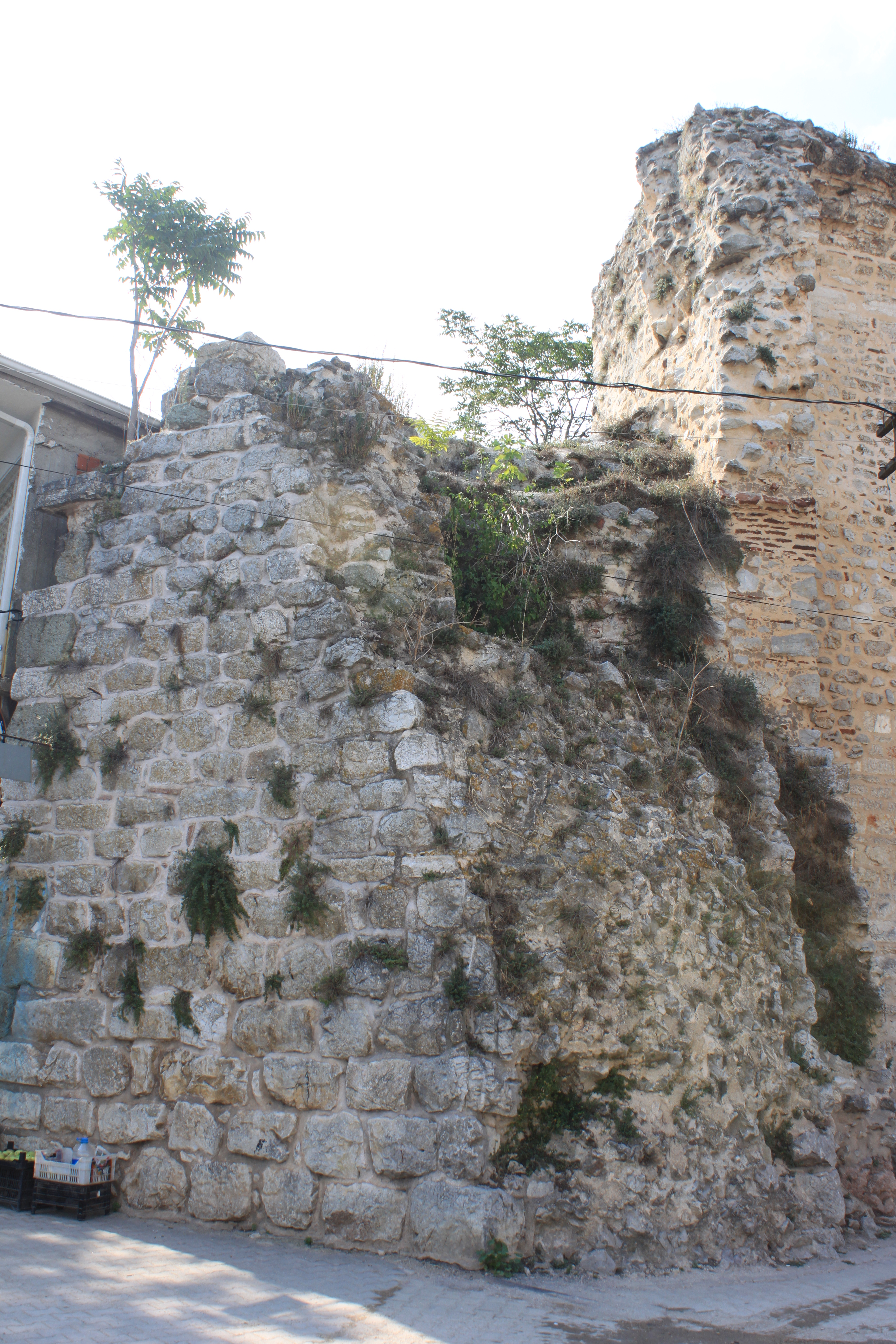 Apollonia ad Rhyndacum (today Gölyazı); Byzantine city wall 8th to 10th century.